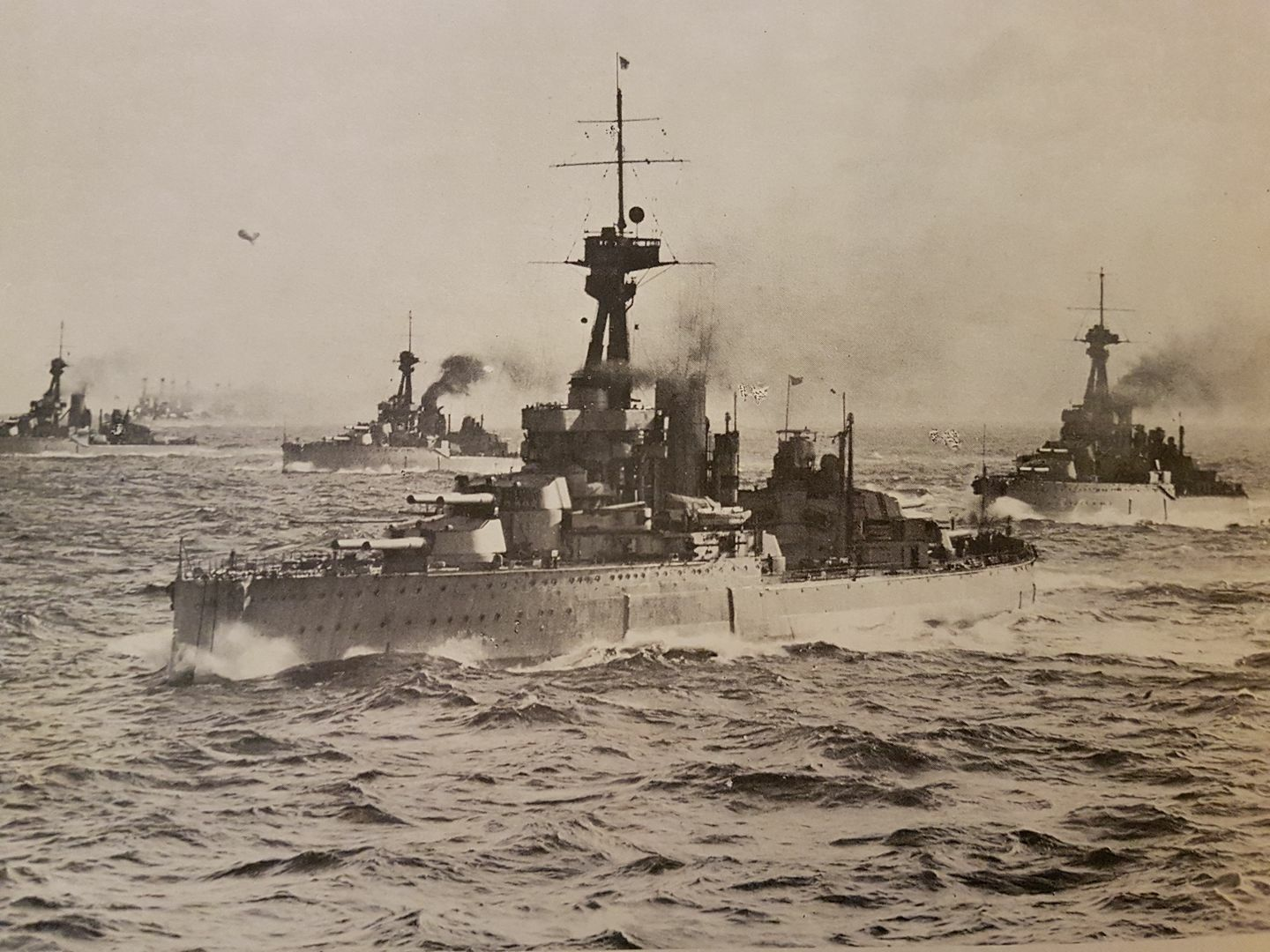 The four Orion-class battleships. The HMS Orion (1910) is likely the ship in the foreground.